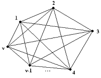 Polygon